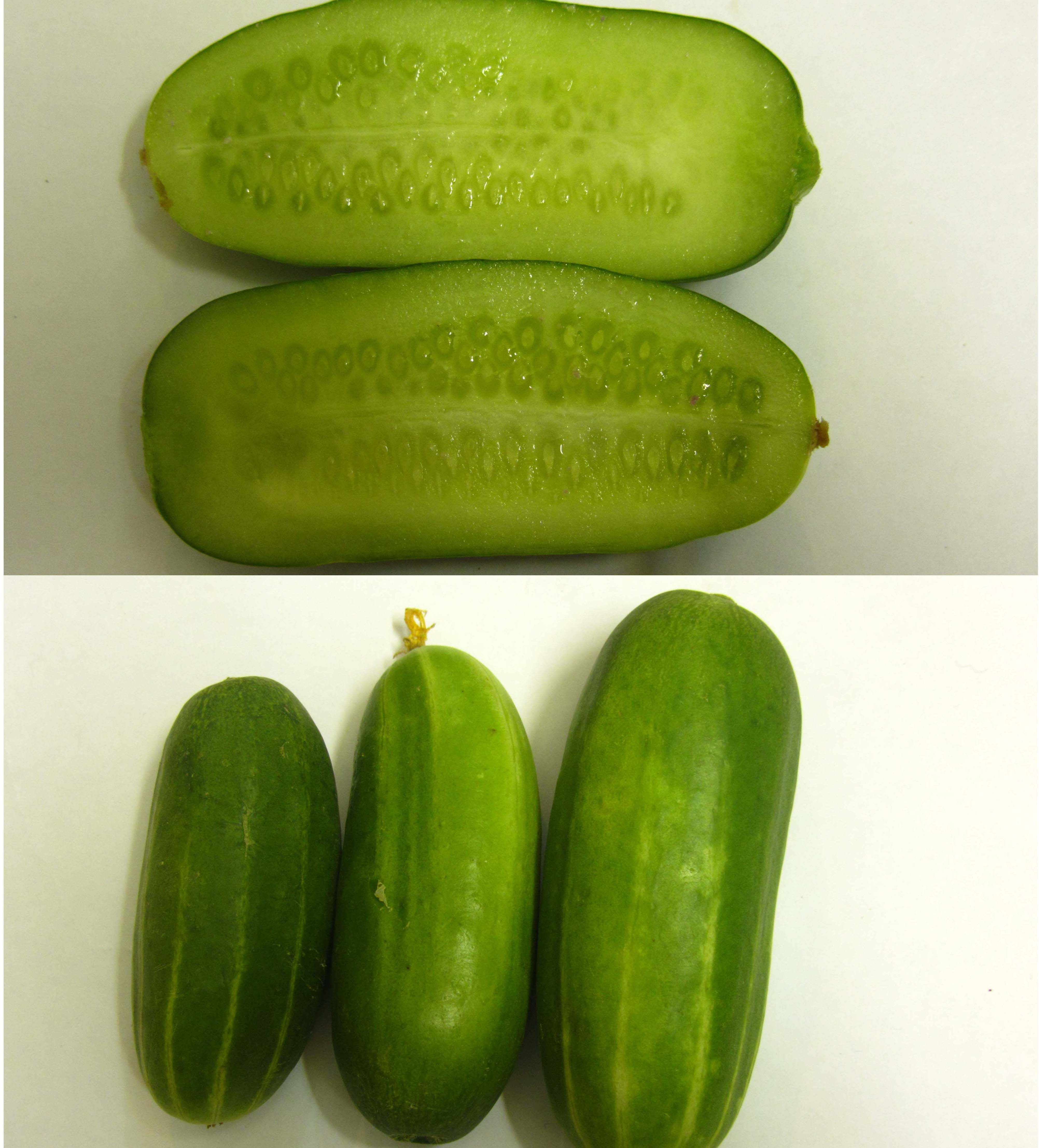 this is image from native cucumber of Isfahan from Iran